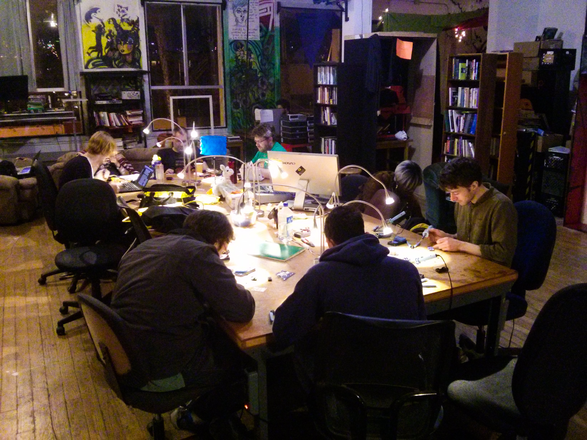 Circuit Hacking Monday at Noisebridge San Francsico February-2015